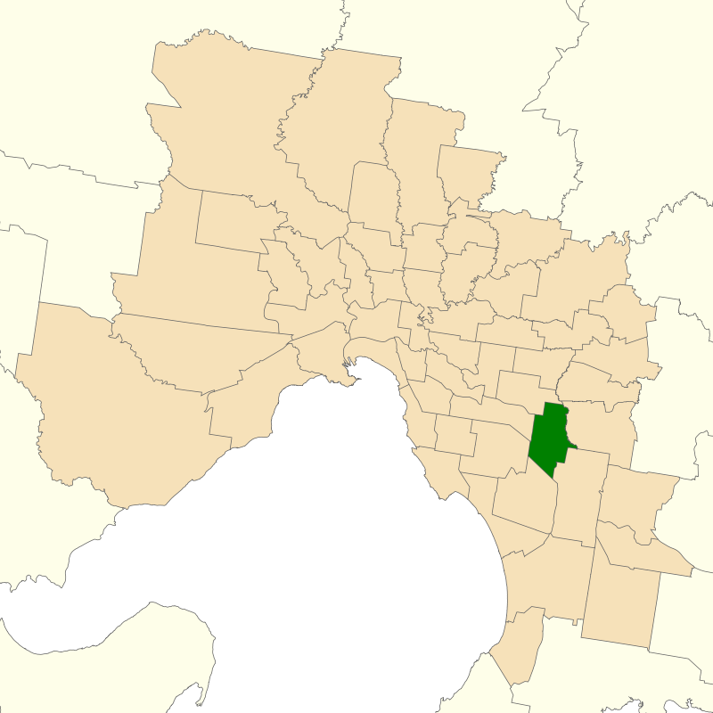 Location of the Victorian electoral district of Mulgrave (dark green) in the Greater Melbourne area.